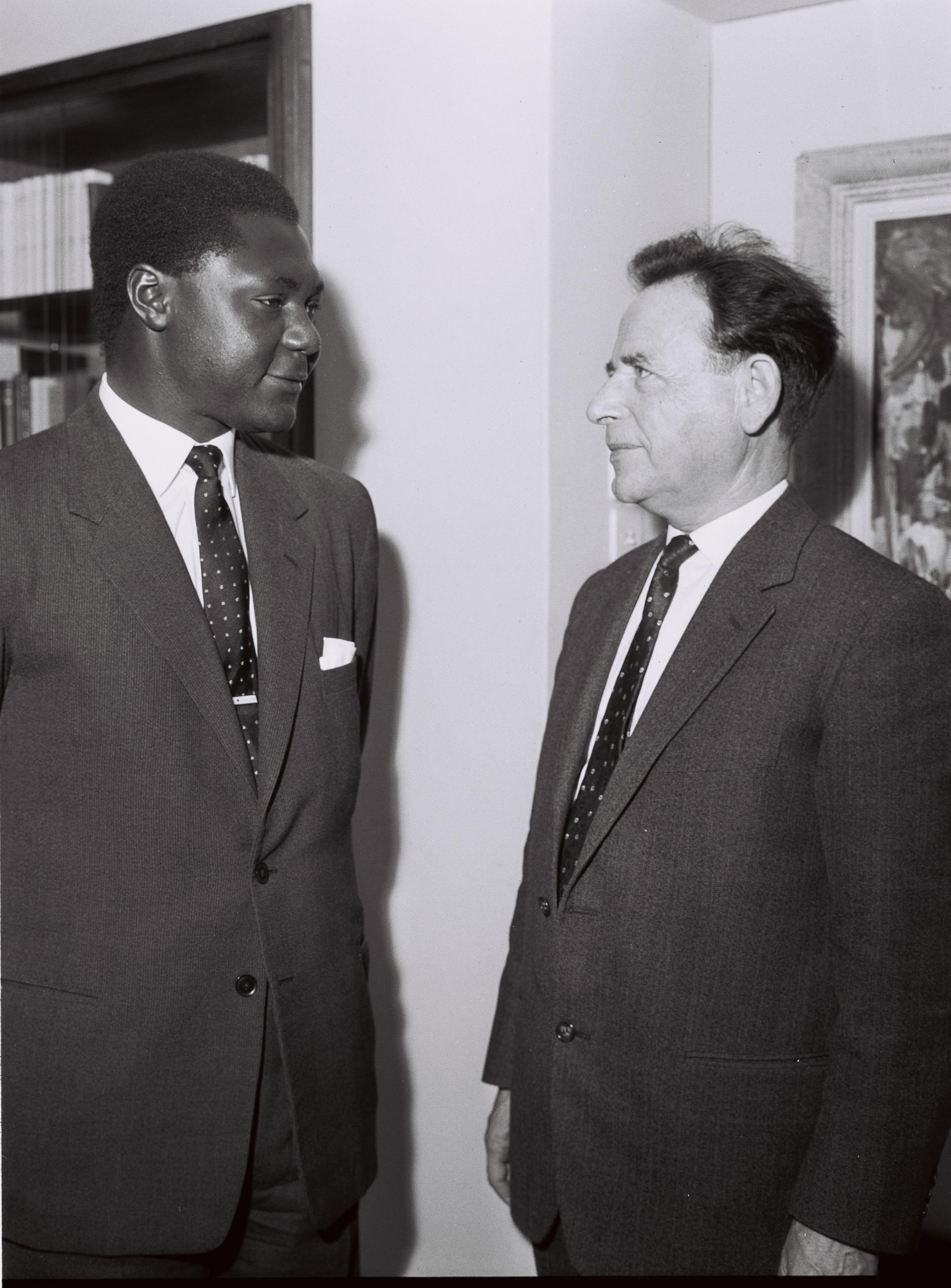 Secretary general of the Kenya federation of labor Tom Mboya awith Histadrut secretary general Aharon Becker.